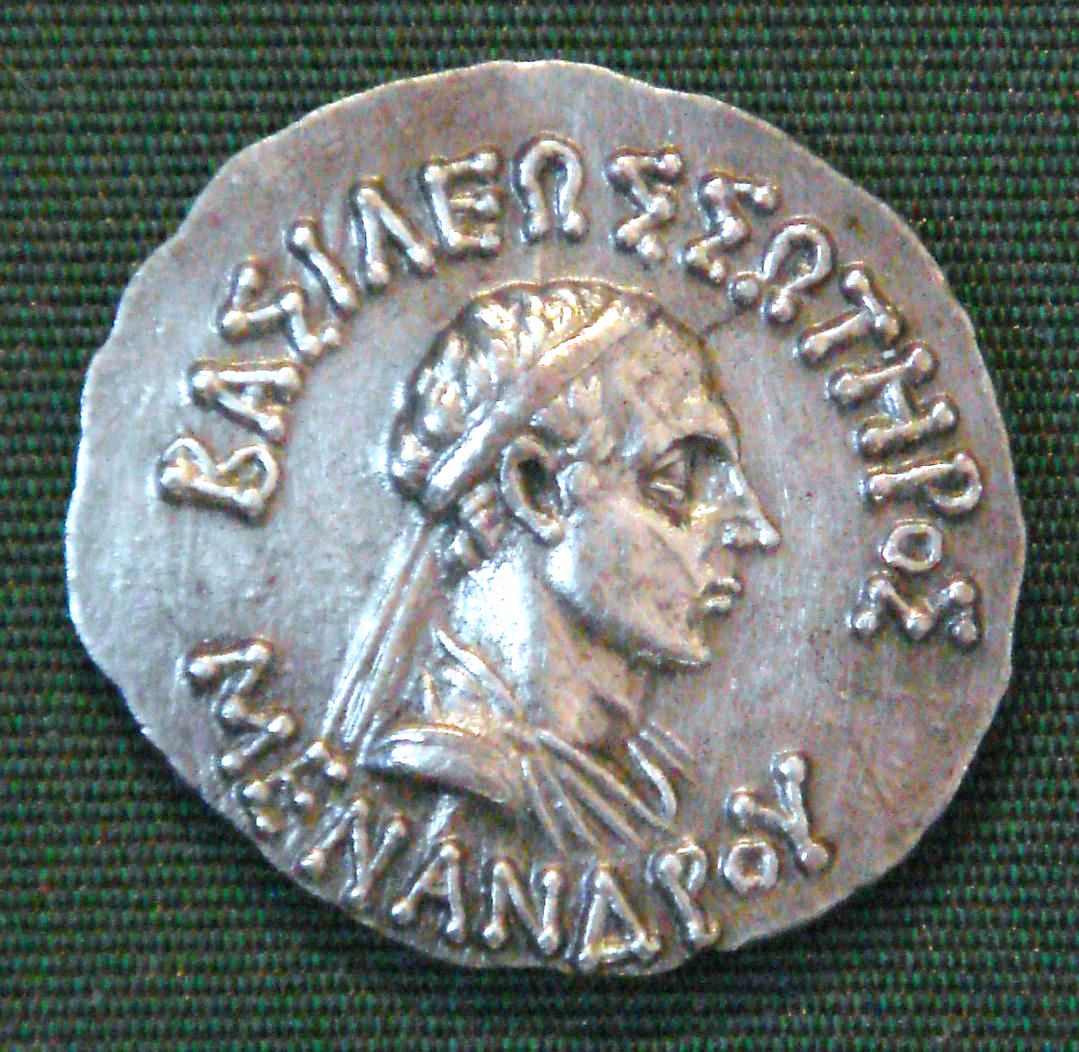 Coin of Menander. British Museum. Personal photograph 2006. Menander, was an Indo-Greek king of Punjab 160 BCE- 140 BCE (his Indian name was Milinda).